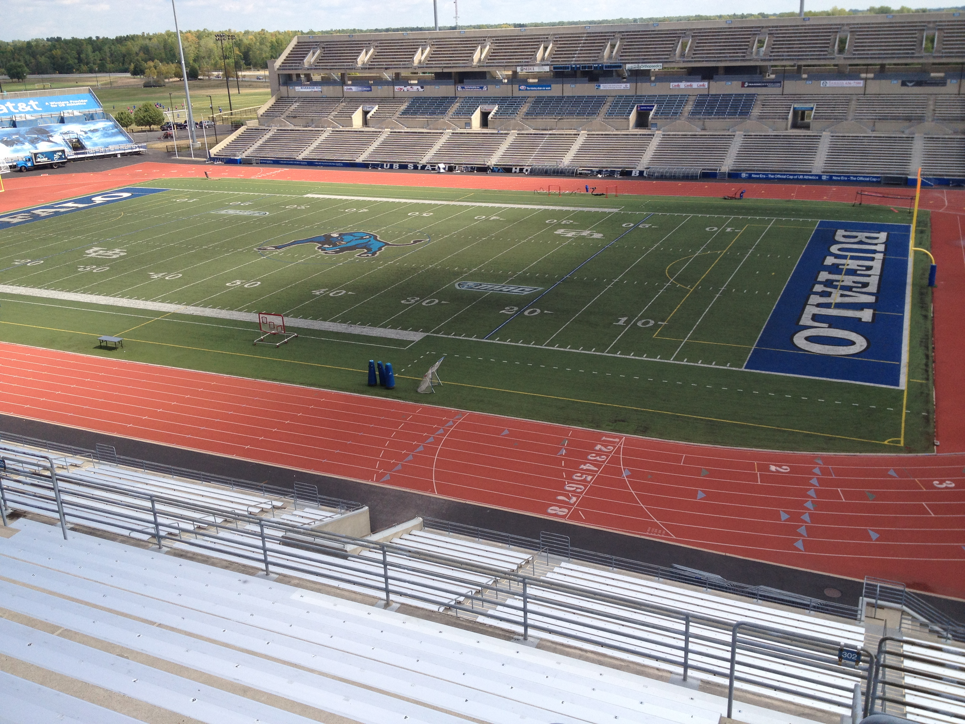 Shot of UB's Stadium on the University at Buffalo's north campus